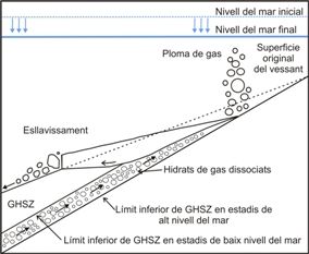 ladnslide triggering by gas hydrate dissociation, produced by a sea level change